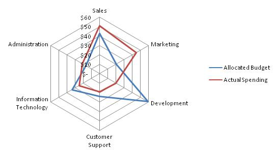 An example of a Radar/Spider chart entry under diagrams.